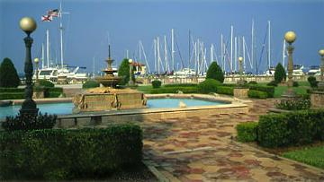 picture taken for this article